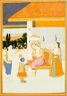 'Vamana Avatar' (incarnation as 'Vamana') of Vishnu and King 'Bali'.